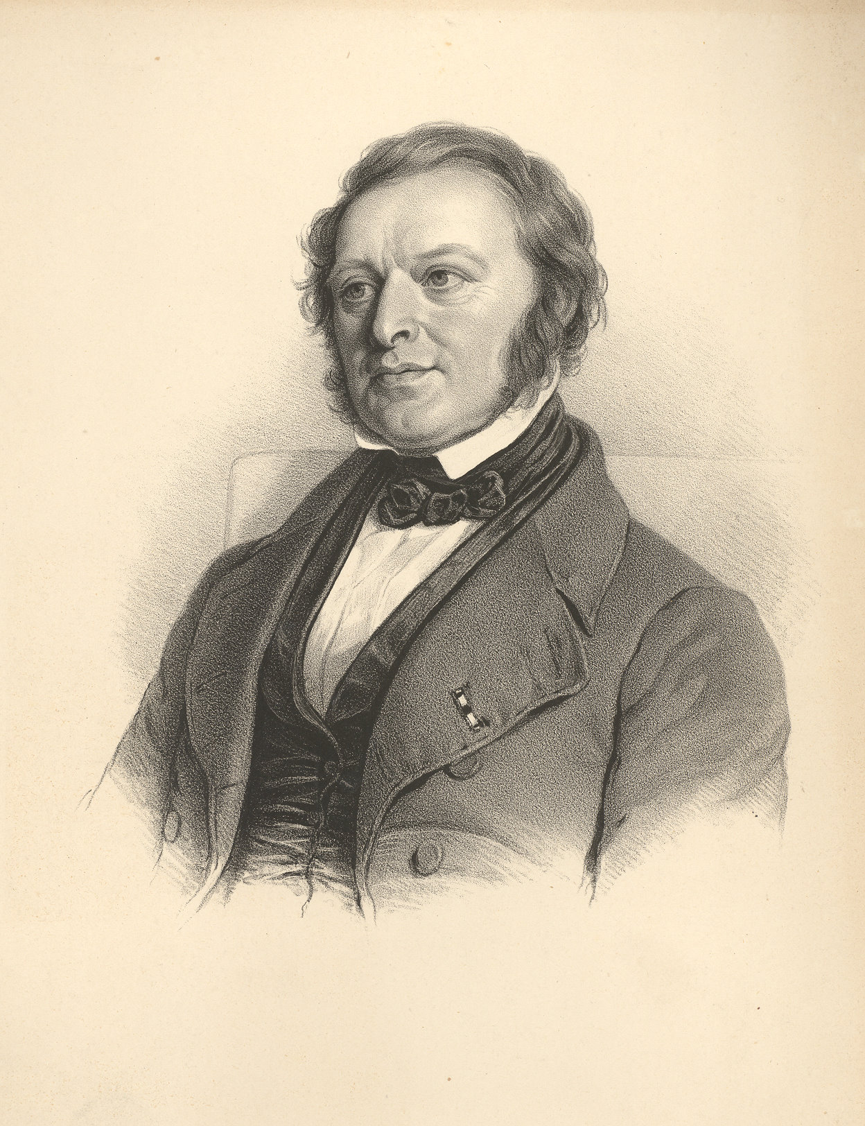 Johan Georg Forchhammer (1794-1865), Danish geologist and mineralogist, Professor, Director of the College of Advanced Technology (now Technical University of Denmark), Rector of the University of Copenhagen.